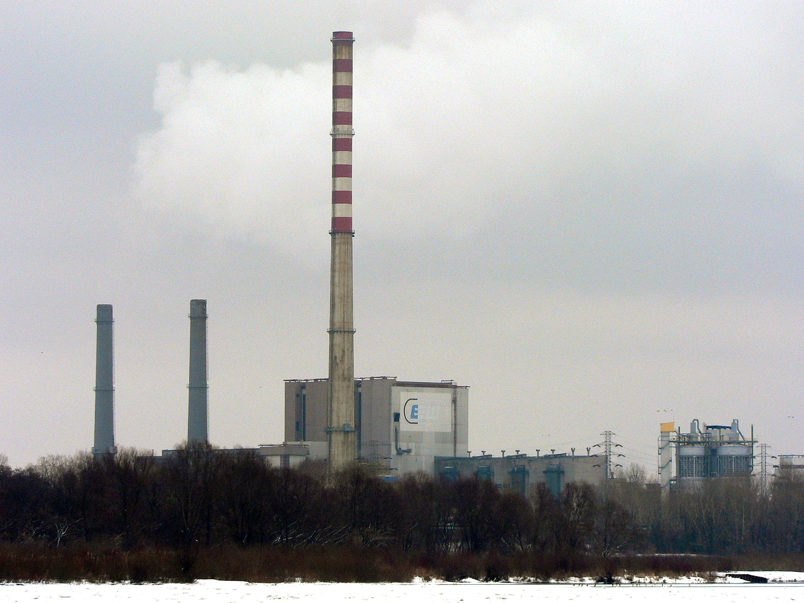 Żerań power station, Warsaw, Poland.